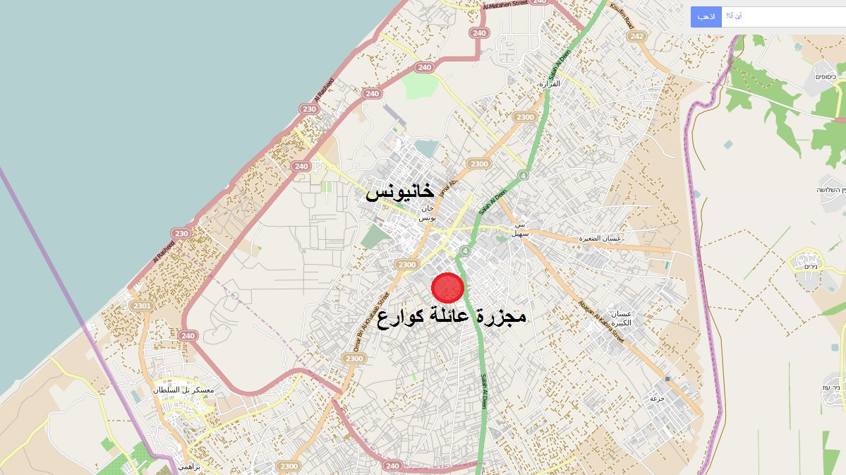 Massacres 11.07.2014 This map may be incomplete, and may contain errors. Don't rely solely on it for navigation.